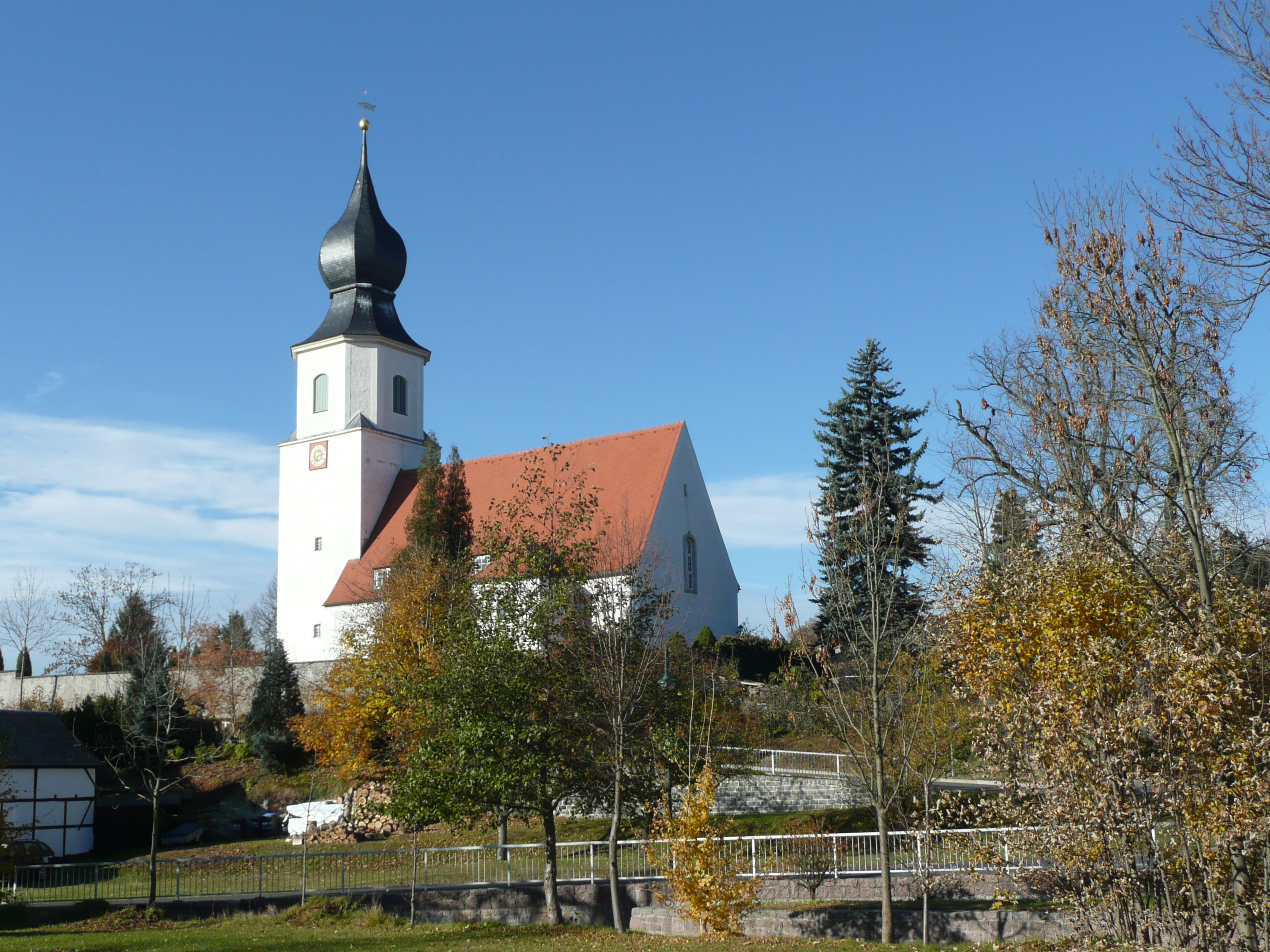 This image shows the evangelic church in Colmnitz near Freiberg in Saxony. The church was built 1739.